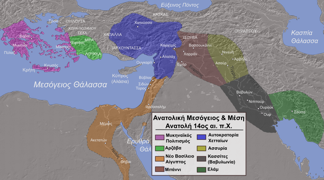 Eastern Mediterranean and Middle East in 14th century (including Amarna period)